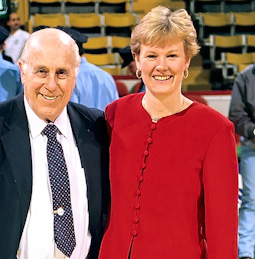 Boston Globe and Sports Illustrated reporter, Jackie MacMullan with Red Auerbach 1995